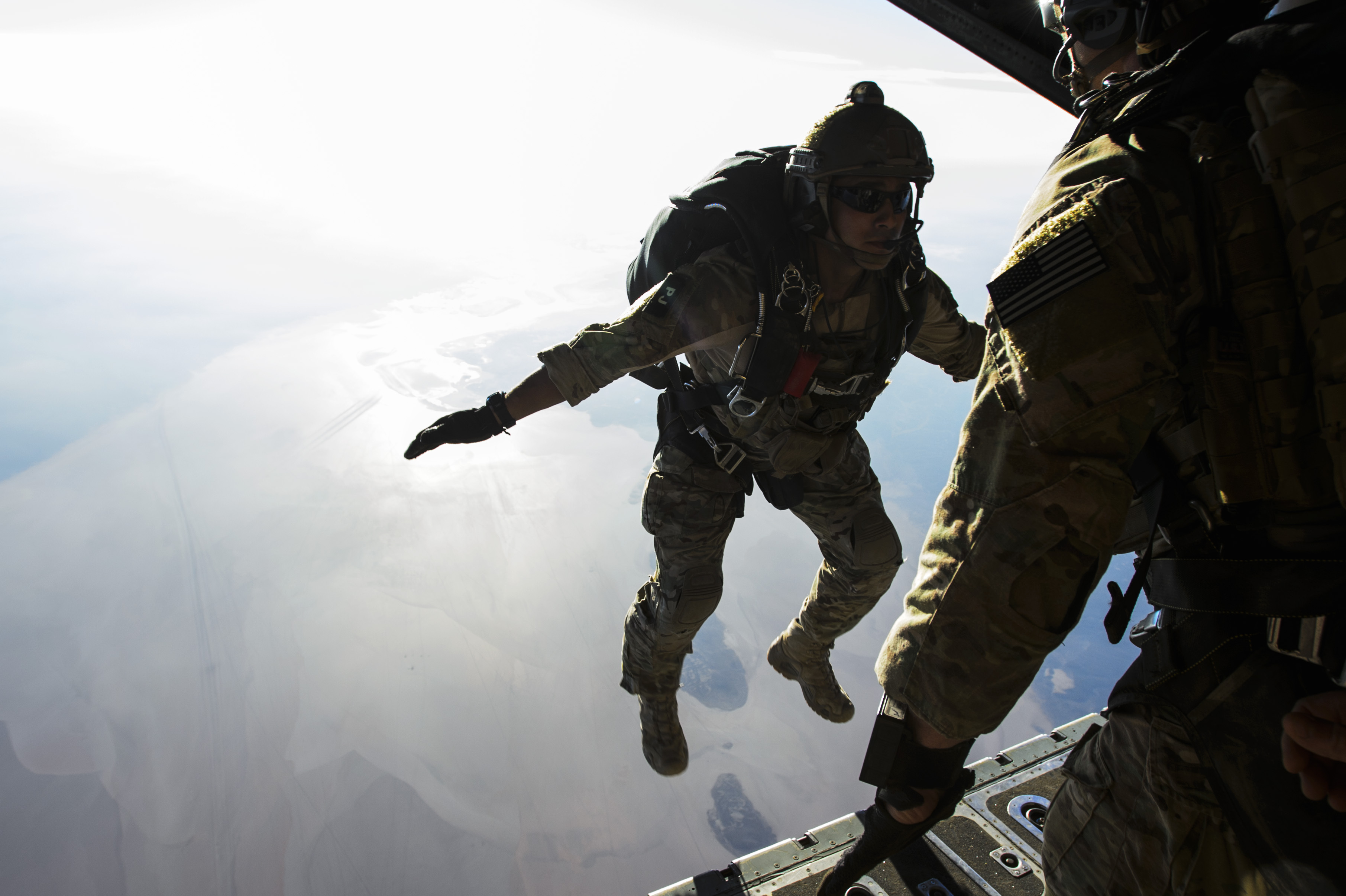 U.S. Air Force Senior Airman Kristopher Tomes, a pararescueman with the 82nd Expeditionary Rescue Squadron, jumps from a HC-130 following his re-enlistment near Camp Lemonnier, Djibouti, Nov. 19, 2013. Tomes is deployed from the 308th Rescue Squadron and has performed more than 150 jumps. (U.S. Air Force photo by Staff Sgt. Staci Miller/Released)